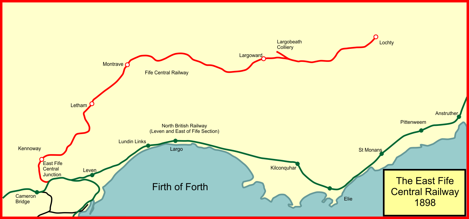 System map of the East Fife Central Railway, Scotland, in 1898